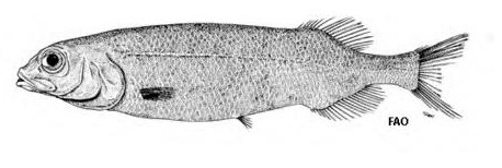 Graphic of Bajacalifornia megalops